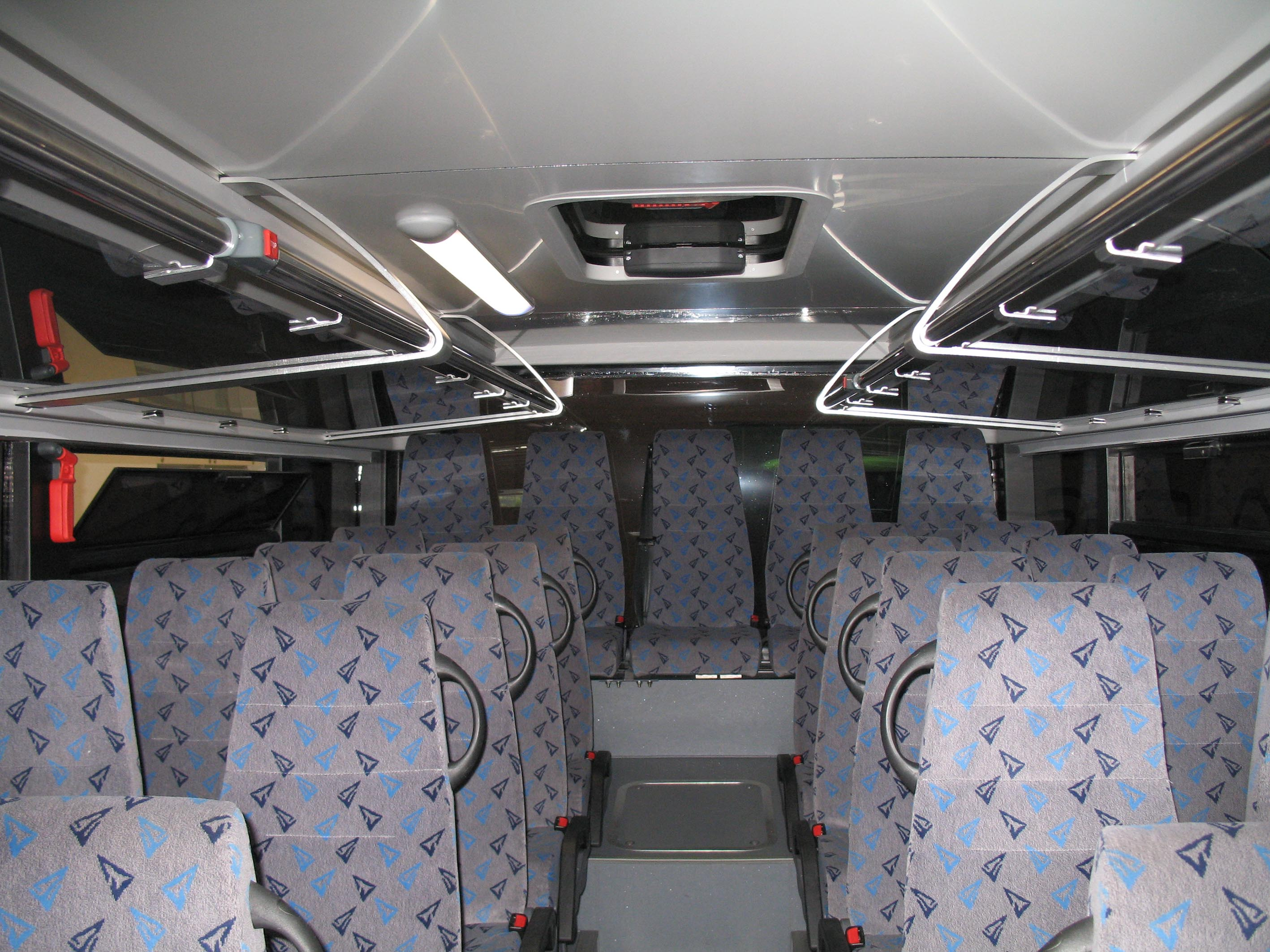 Solaris InterUrbino 12 intercity bus (prototype) inside in Kielce, Poland. Built 2009. Transexpo 2009.